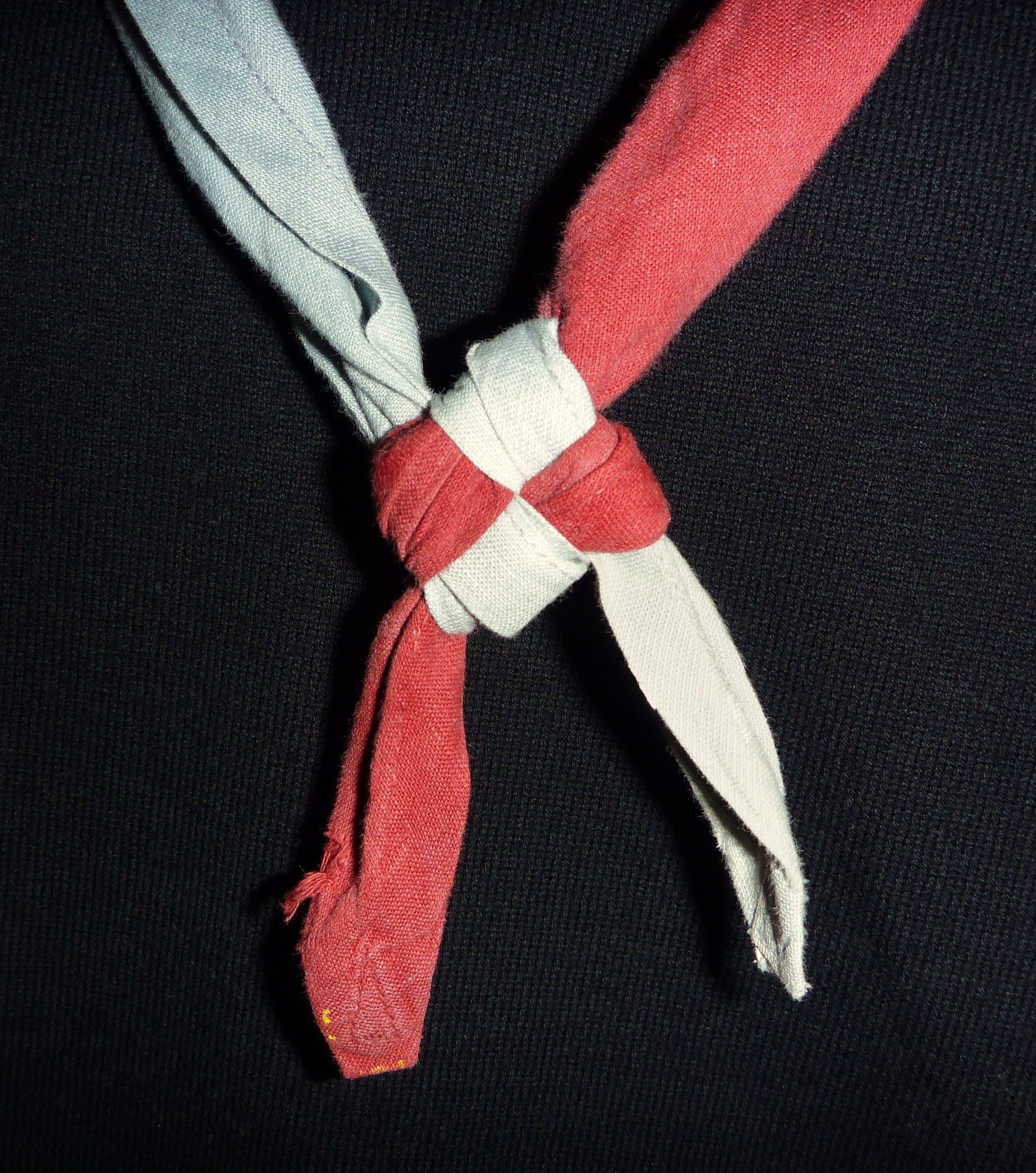 Square knot done on a Scout scarf.